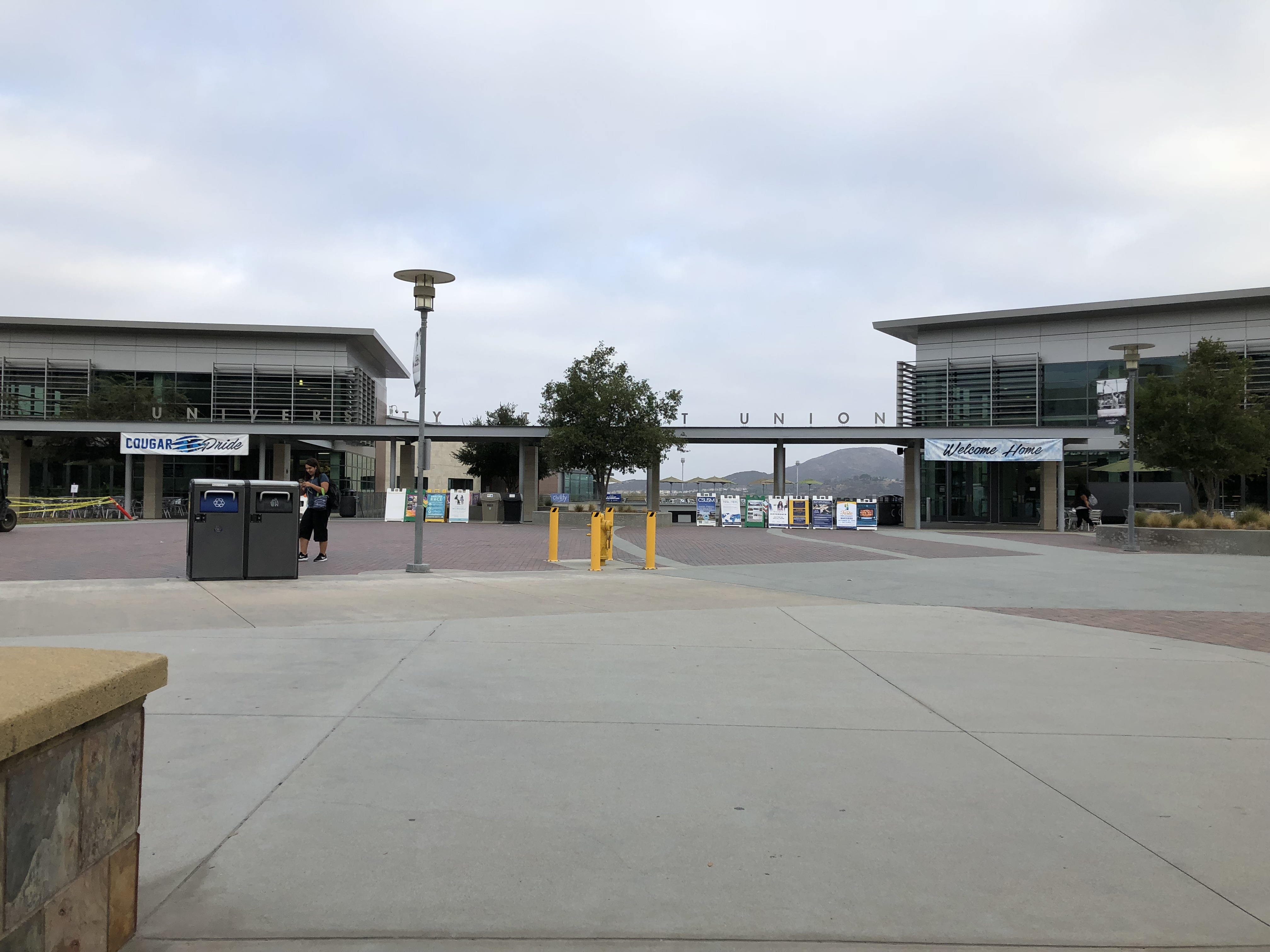 A view of the University Student Union Building